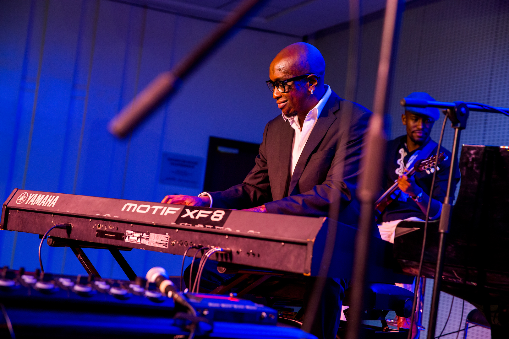 Aaron performs with his quartet in Nairobi